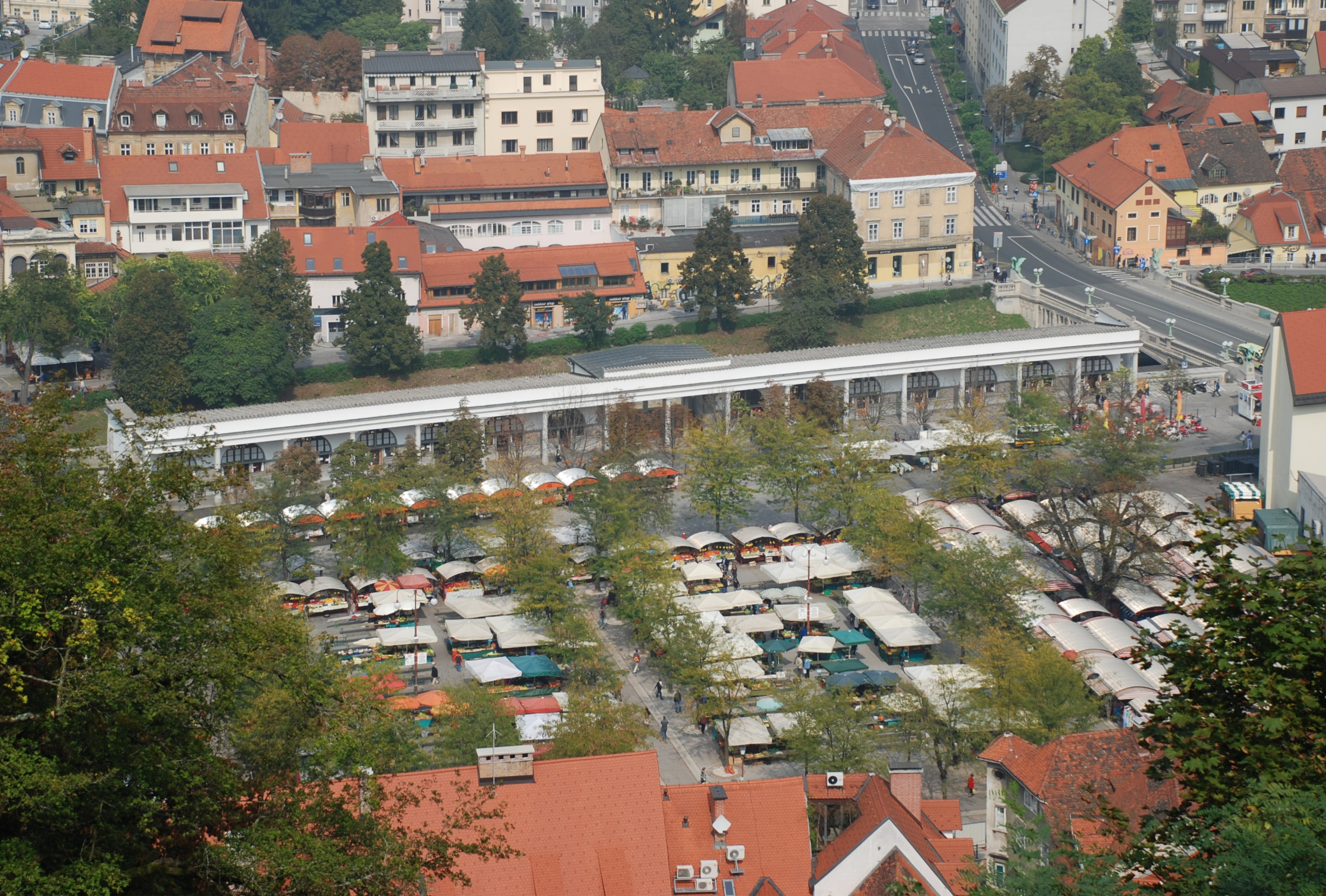 Ljubljana Central Market, Slovenia, designed by Jože Plečnik (1939-41). View from Ljubljana Castle.